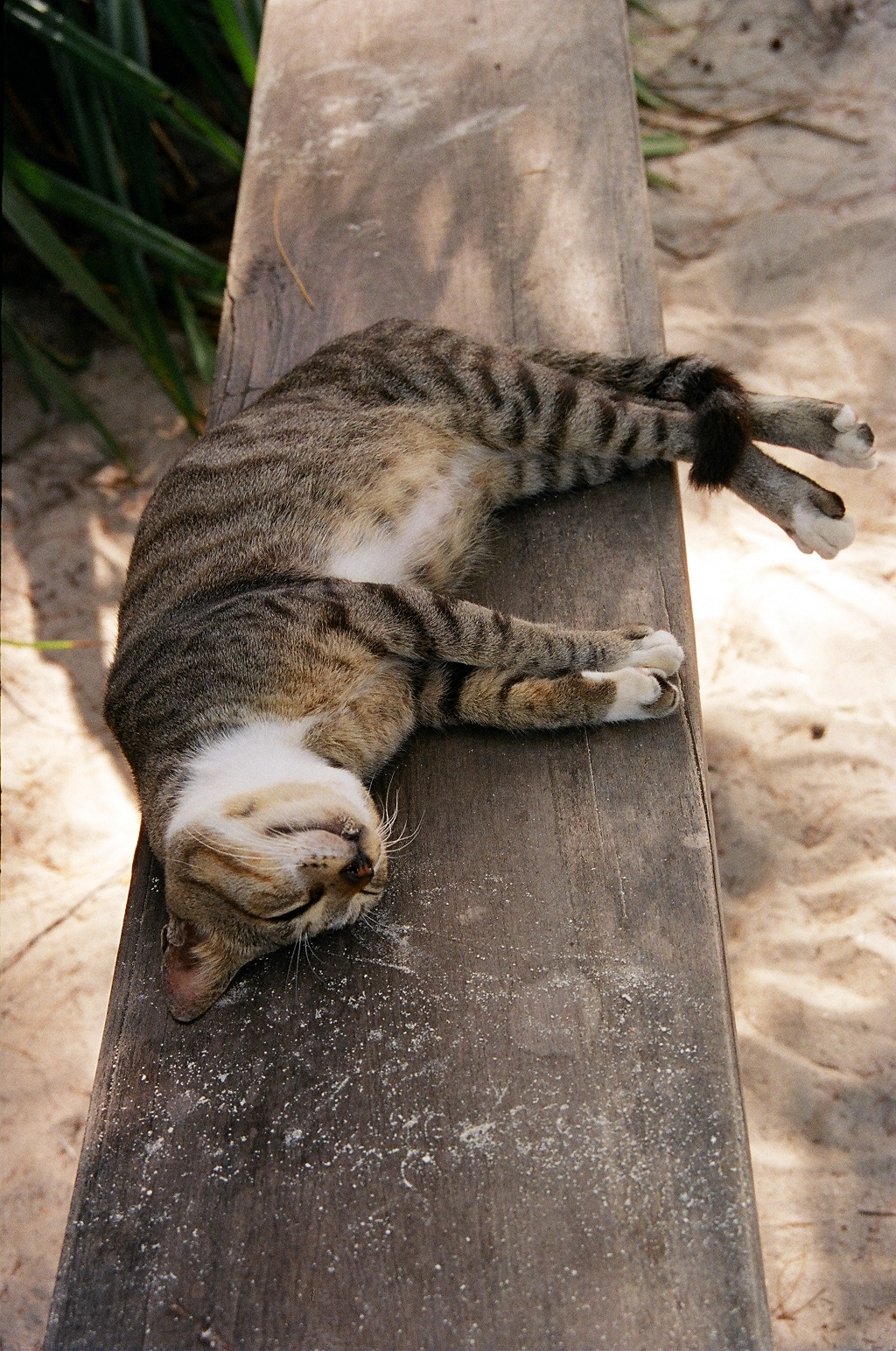 Cat in Zanzibar. No permission for publishing given by the model, but I think, it is ok...